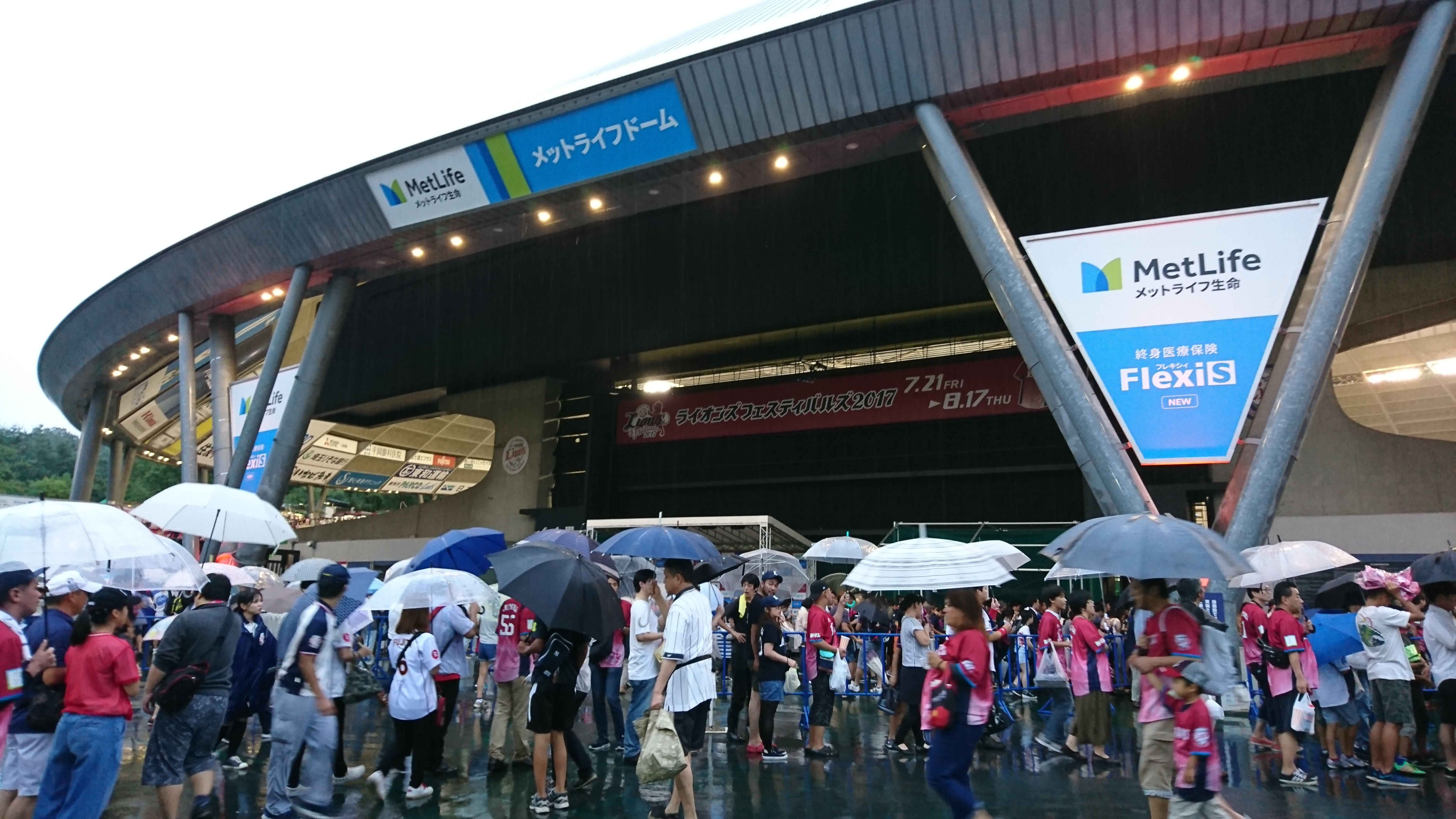 The logo title used in "Lions Festival 2017" held in MetLife Dome. During the festival, the players of Saitama Seibu Lions put on "Enjishi uniform".